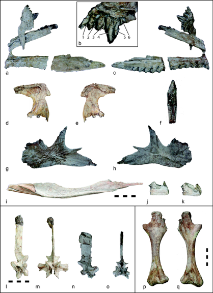 Photographic figure of NCSM 21623). right premaxilla and maxilla in lateral (a) and medial (c) views; (b) right premaxilla detail of teeth and alveoli (not to scale); left lacrimal, lateral (d) and medial (e) views; (f) isolated maxillary tooth with root; left jugal in lateral (g) and medial (h) views; (i) right angular, lateral view; left articular in lateral (j) and medial (k) views; cervical neural arch in left lateral (l) and cranial (m) views; dorsal neural arch in right lateral (n) and caudal (o) views; right humerus in caudal (p) and cranial (q) views. Scale bar corresponds to all elements in boxes: 5 cm.